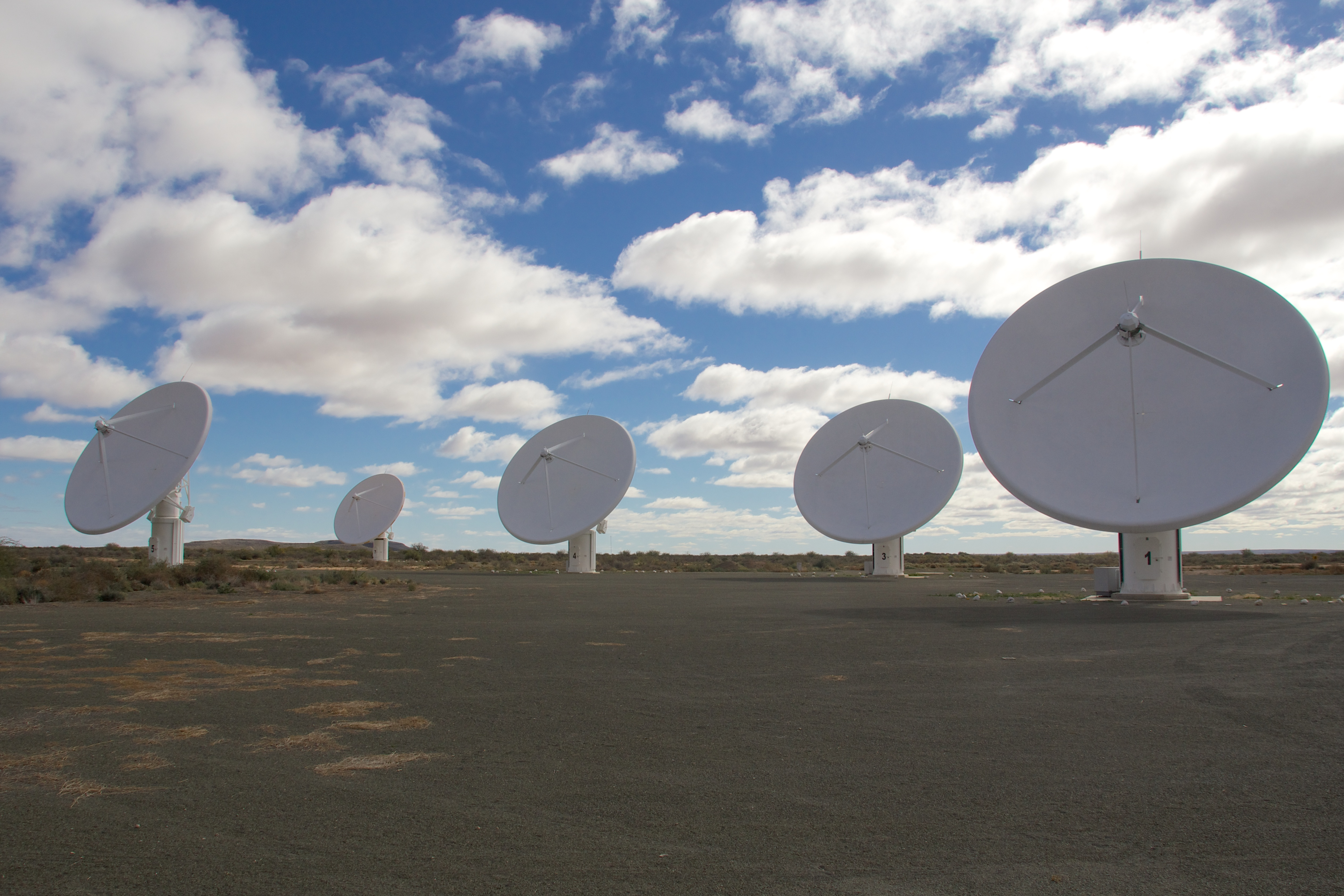 KAT-7. Square Kilometre Array site, north of Carnarvon, Northern Cape, South Africa.